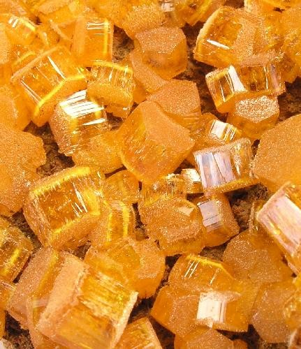 Mimetite Locality: Pingtouling Mine (Dashuihu Mine), Liannan County, Qingyuan Prefecture, Guangdong Province, China (Locality at ) Size: 11.7 x 4.2 x 2.5 cm. A rich plate of superb hexagonal Mimetites that range up to .5 cm across. Most of the crystals have lustrous gemmy cores sandwiched between frosty terminations of yellow micro crystals. Superb and aesthetic example from famous finds now over 5 years ago, never repeated since despite a lot of looking for more! These crystals have an intense yellow color to them, and killer lustre. Ex. Charlie Key.